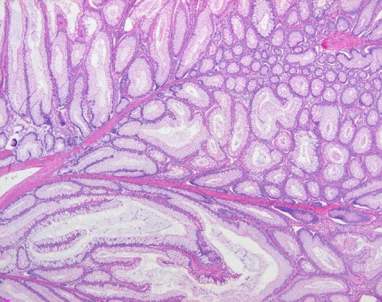 Pathologic findings of the Peutz-Jeghers polyp. The colonic polyp shows hyperplastic mucosal epithelium and arborizing pattern of smooth muscle, consistent with a hamartomatous polyp (Hematoxylin-eosin stain, 200x).